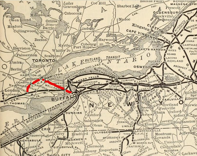 Cropped from the image shown, originally published in 1908 in "The Commercial and financial chronicle". Internet Archive image of the map, uploader marked the TH& B lines in red.